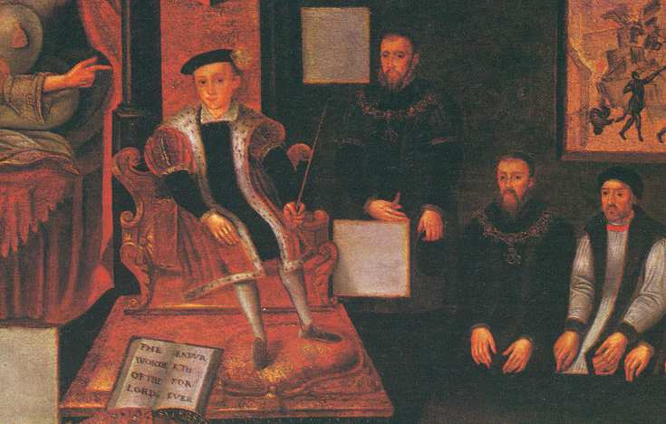 King Edward VI of England, son of King Henry VIII of England and Jane Seymour, with his uncles Edward Seymour and Thomas Seymour and Thomas Cranmer, 1547